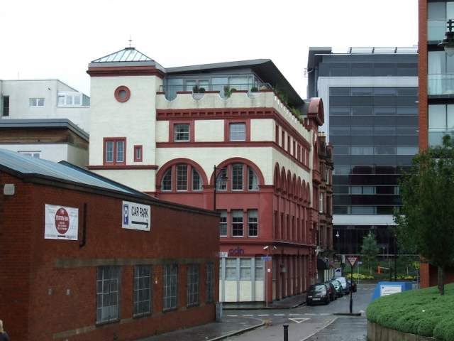 McPhater Street Dunblane Street is between the buildings on the left.